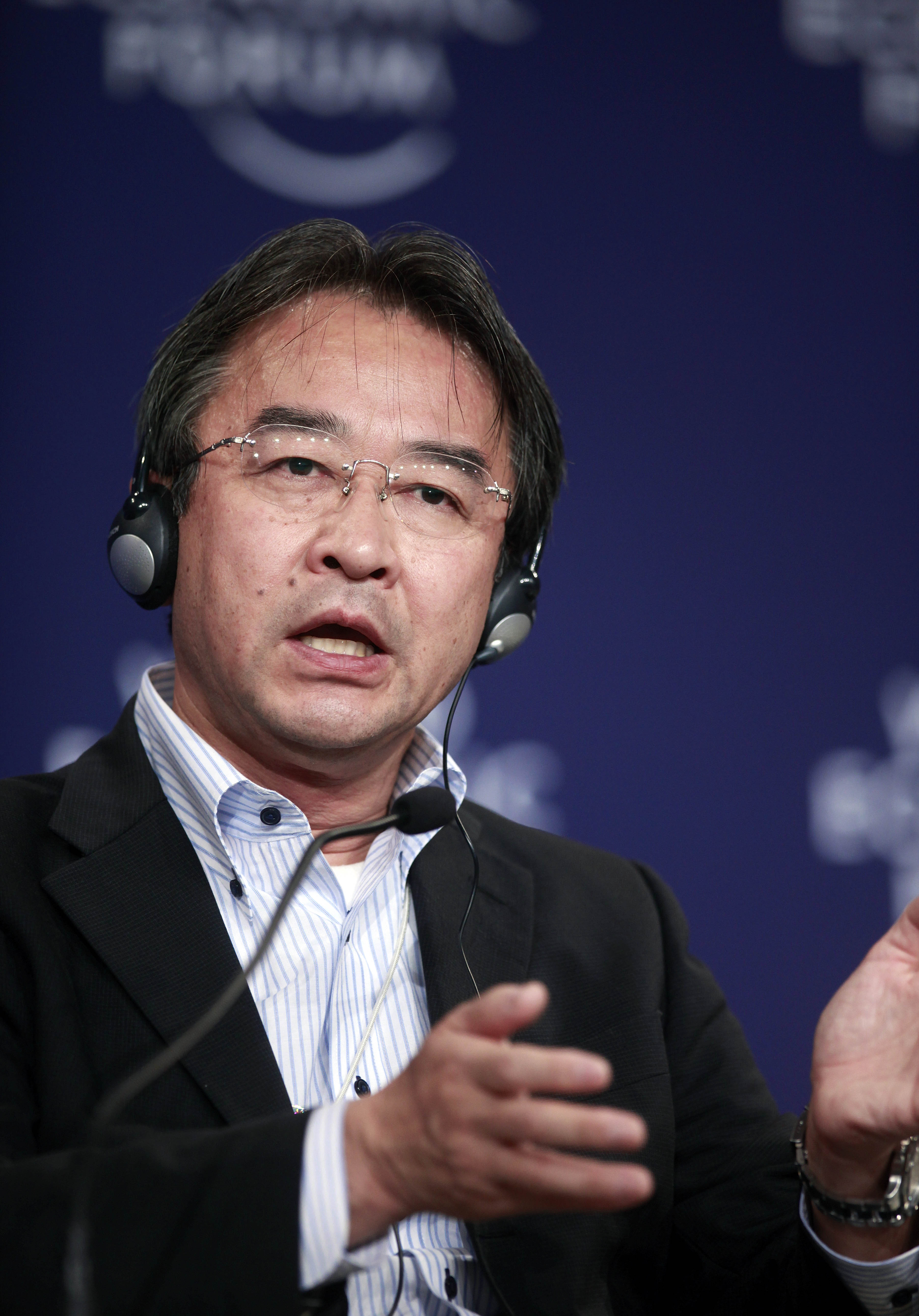 DALIAN/CHINA, 14SEP11 - Shoichi Kondo, State Secretary for the Environment, Ministry of the Environment of Japan, speaks during the "Charting a Low-carbon Route to Growth" at the Annual Meeting of the New Champions in Dalian, China, September 14, 2011. Copyright World Economic Forum ( Shen